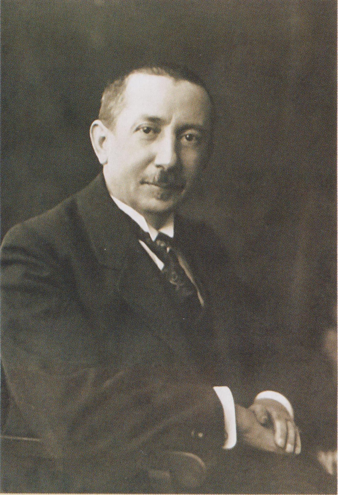 Official Portrait of PM Gyula Peidl